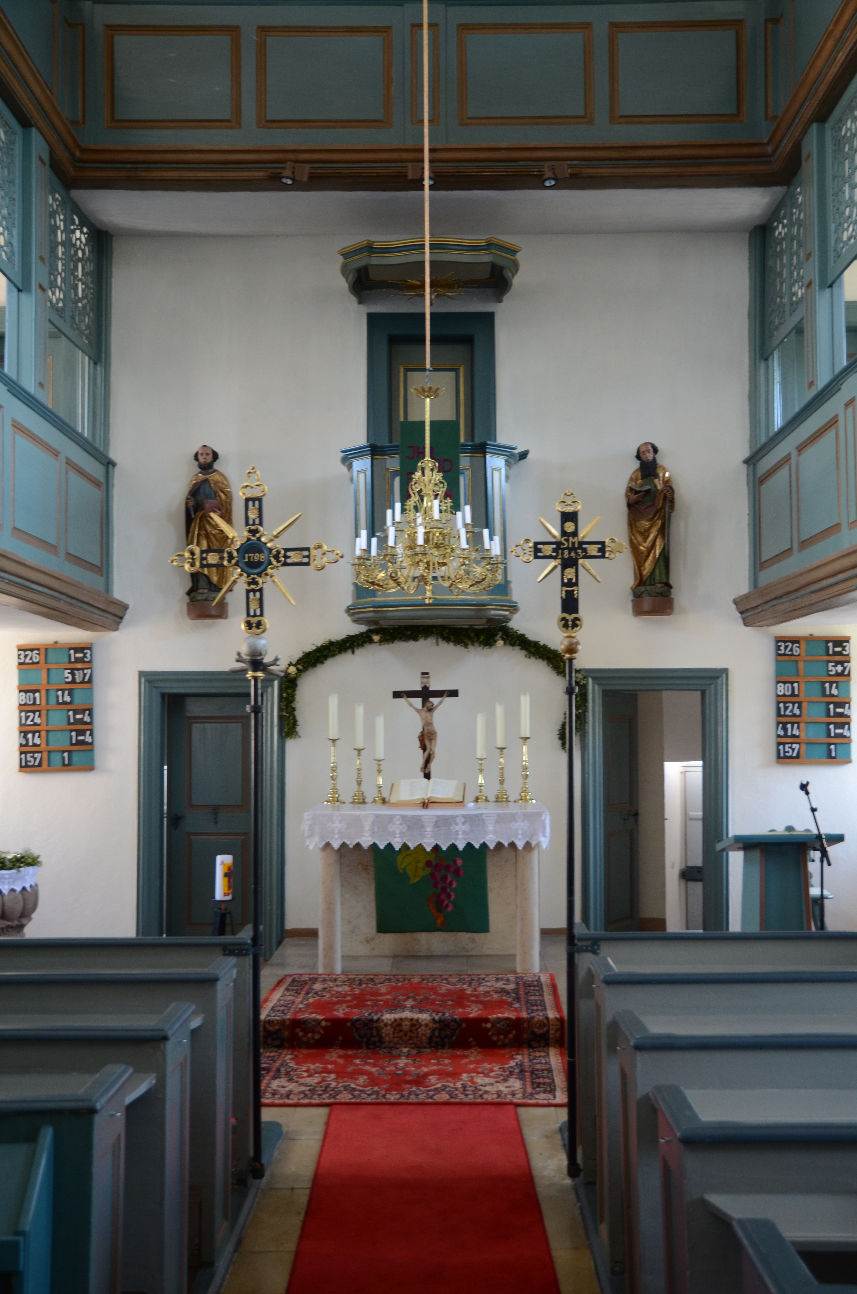 Thann evang.-luth. Kirche St. Peter